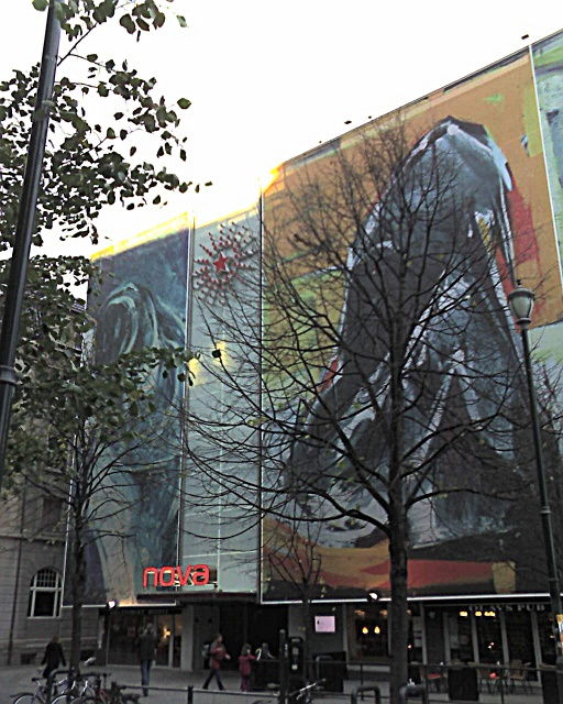 Nova Kinosenter at 15:28:11 October 30 en:2005. Picture taken with a Siemens M75 and released into the public domain by User:Kallemax.